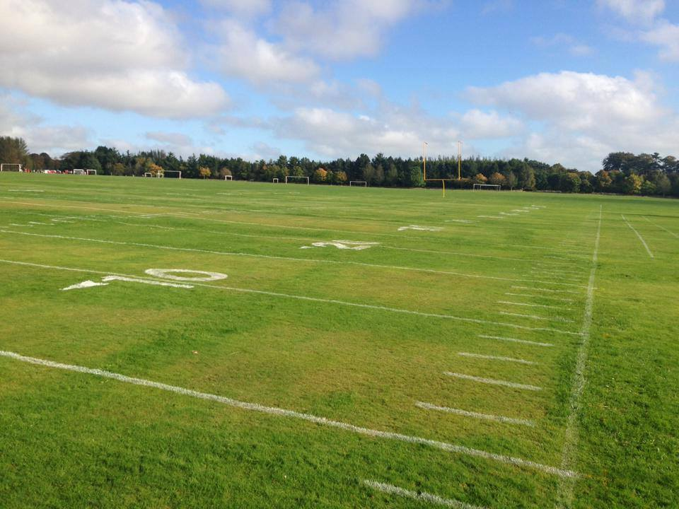 Aberdeen Roughnecks AFC home ground